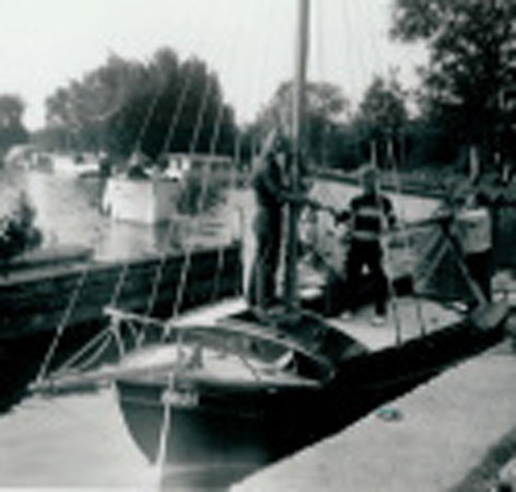 A cutter-rigged Westcoaster with a bowsprit. Shown is the Westcoaster "Zephyros", then owned by Mr G Moggridge, a member of the Topsham Sailing Club in Devon, with his family on holiday in the Norfolk Broads.